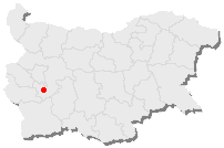 Map of Bulgaria, the red point is the position of Samokov.